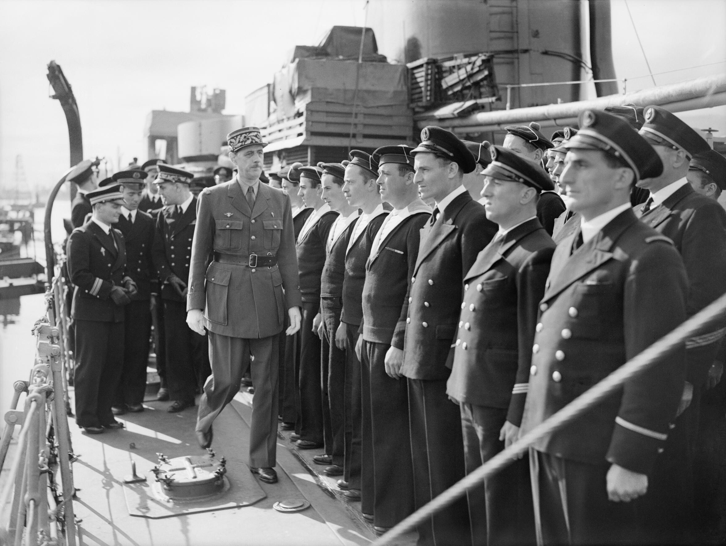 General De Gaulle inspecting sailors on the Free French destroyer Léopard at Greenock, 24 June 1942.